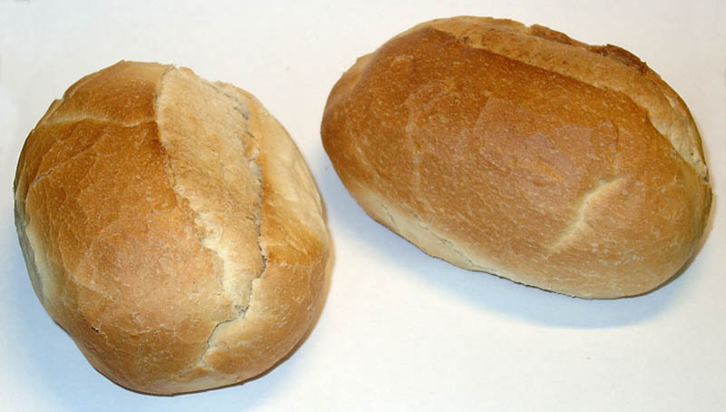 Two bread rolls (Brötchen).